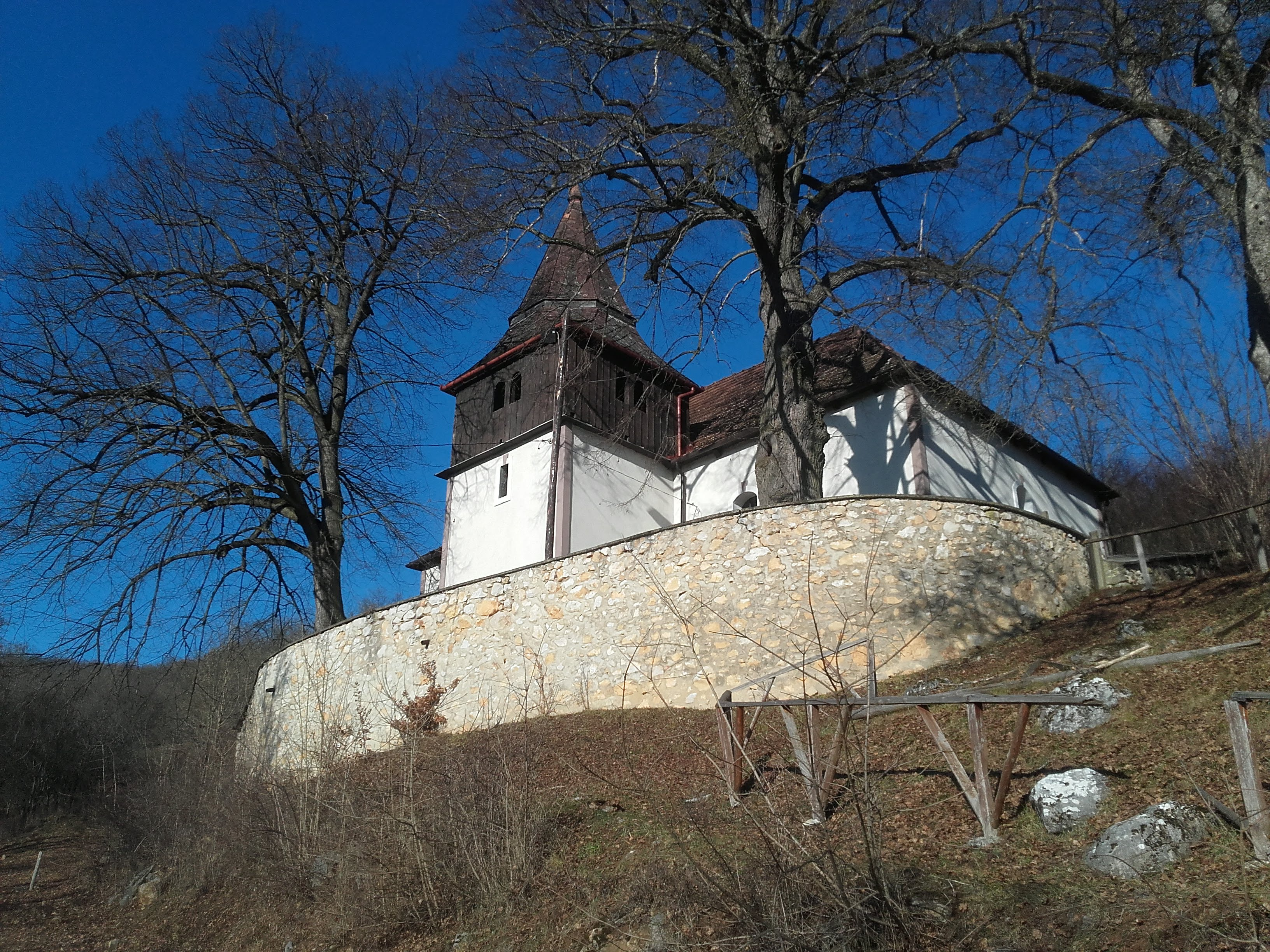 The late-Baroque reformed church of Teresztenye, Hungary, built in 1697